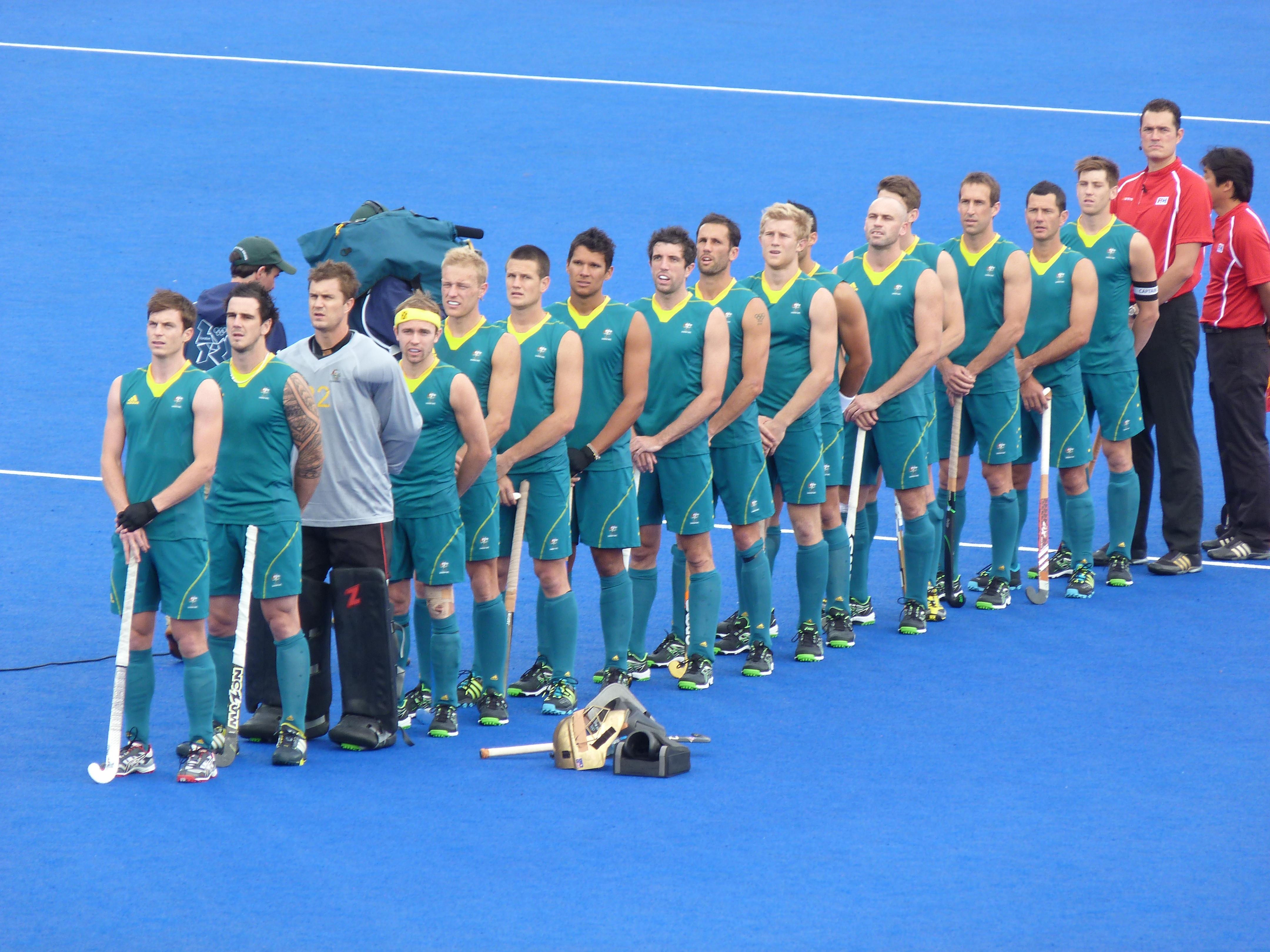 2012 Olympic field hockey team Australia at the Riverbank Arena before the game against Spain. From front to back: Fergus Kavanagh, Kieran Govers, Nathan Burgers, Matthew Swann, Tim Deavin, Matthew Gohdes, Joel Carroll, Russell Ford, Mark Knowles, Matthew Butterini, Chris Ciriello, Glenn Turner, Simon Orchard, Liam de Young, Jamie Dwyer, Eddie Ockenden